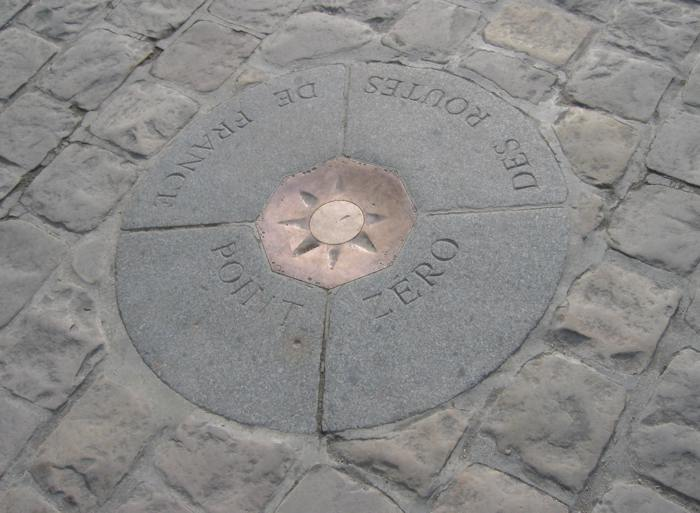 Kilometer Zero stone, in front of Notre-Dame de Paris. Photograph taken by Michael Reeve, 30 January 2004.